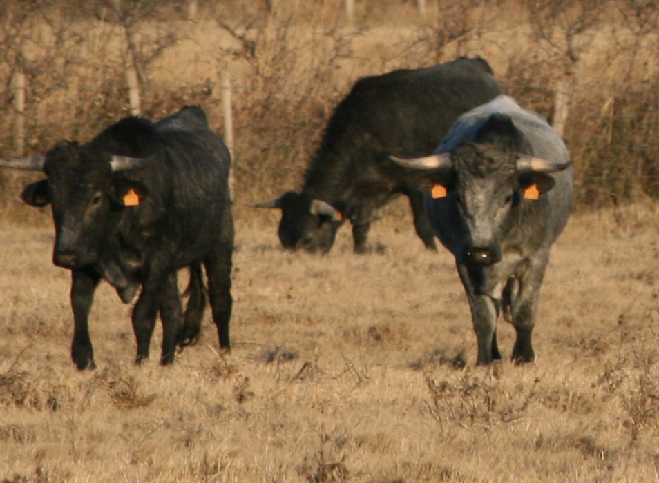 Camargue's bulls